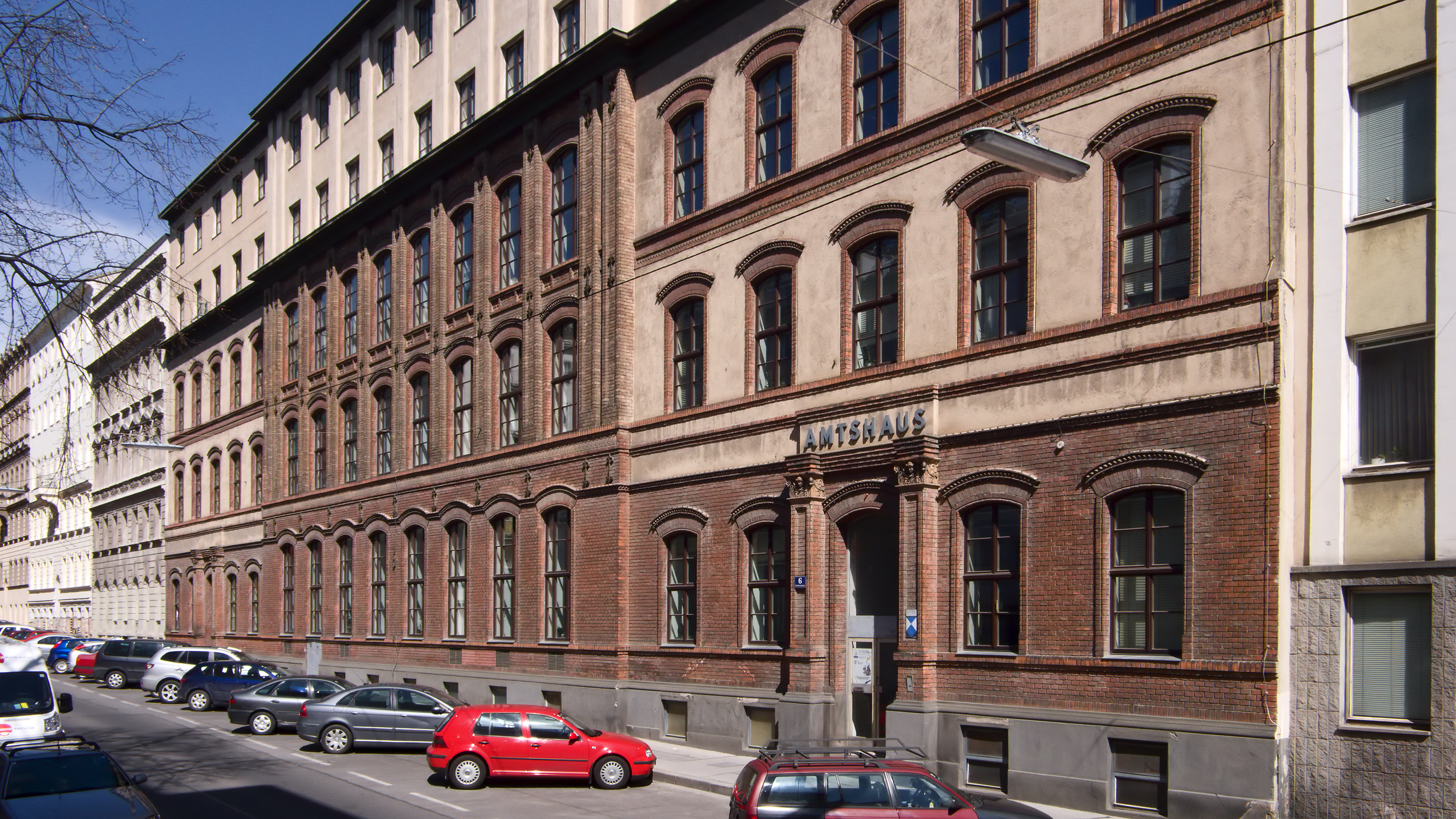 Amtshaus Grabnergasse in Vienna Mariahilf